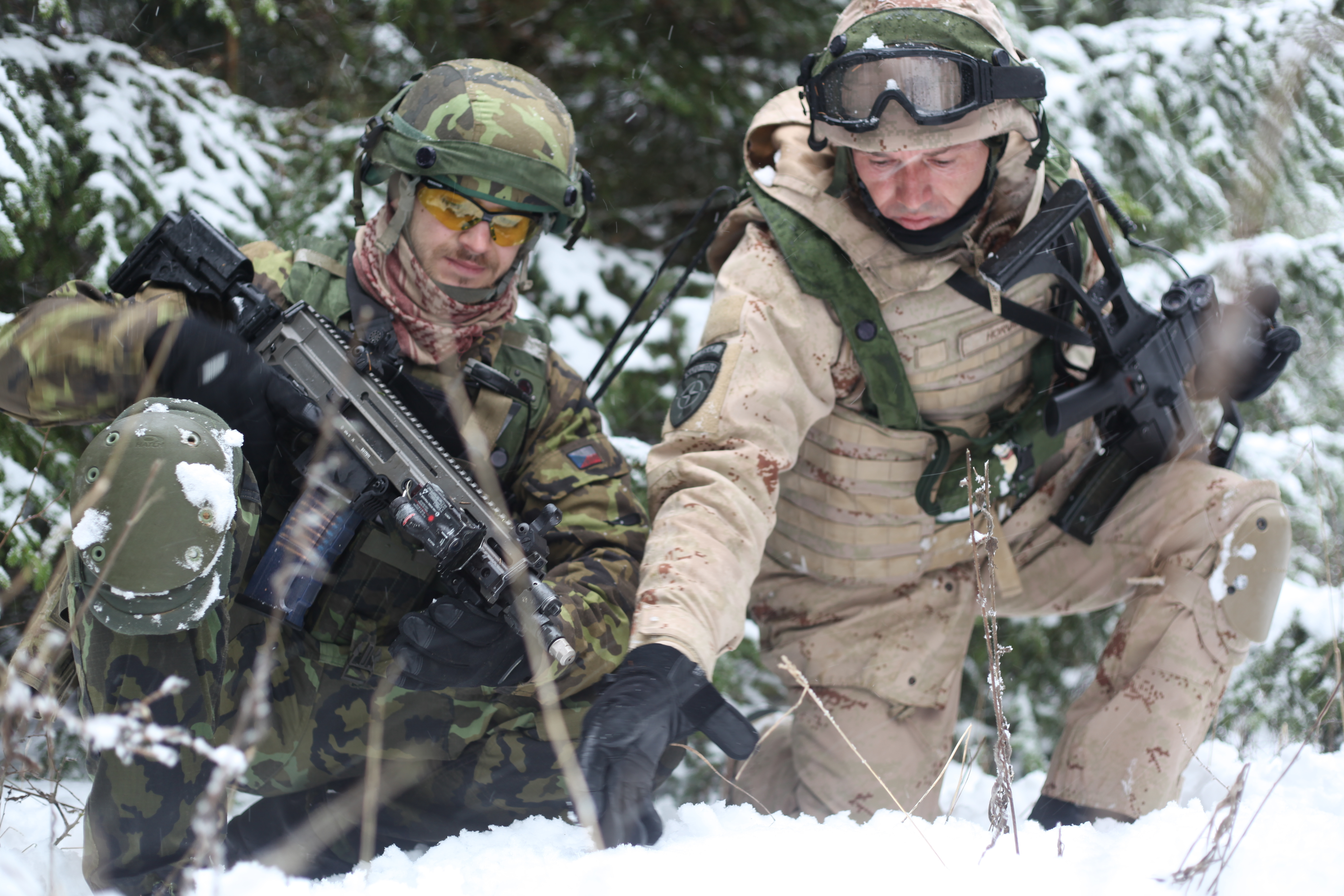 Czech army Sgt. Van Kmecik and Croatian army Master Sgt. Bravko Horvat discuss patrol routes while patrolling through the woods during a military advisory team training exercise at the Joint Multinational Readiness Center in Hohenfels, Germany, Dec. 10, 2012. MATs and police advisory team rotations are designed to replicate the Afghanistan operational environment while preparing teams for counterinsurgency and improvised explosive device operations with the ability to train, advise and enable the Afghanistan National Army and the Afghanistan National Police. (U.S. Army photo by Spc. Tristan Bolden/Released) VIPER COMBAT CAMERA USAREUR Photo by Spc. Tristan Bolden Date Taken:12.10.2012 Location:HOHENFELS, BW, DE Read more